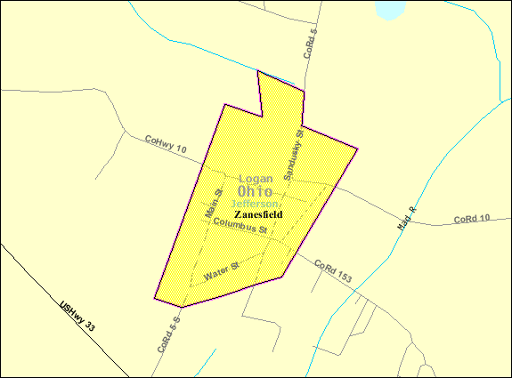 Map of Zanesfield, a village in Logan County, Ohio, United States, with its boundaries at the time of the 2000 census.